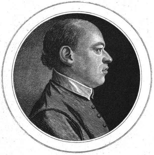 Ildephons Schwarz (1752-1774) Catholic theologians from Germany